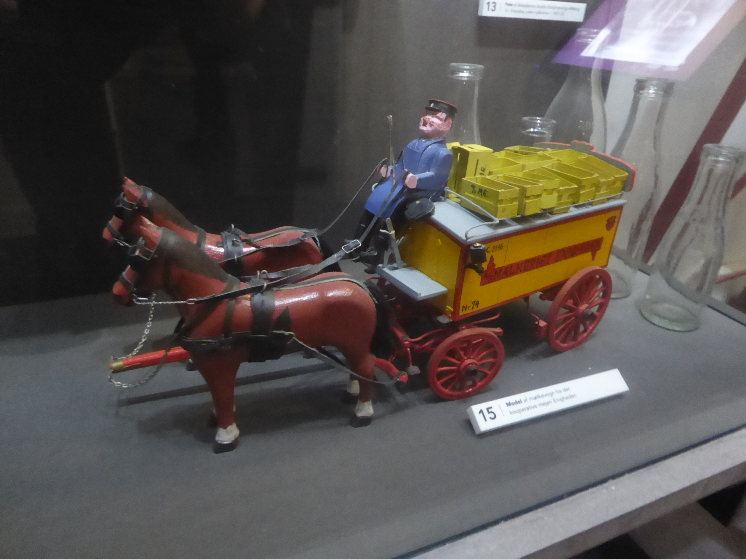 Wooden toy model of carriage of the Danish dairy Enigheden in Arbejdermuseet in Indre By in Copenhagen.